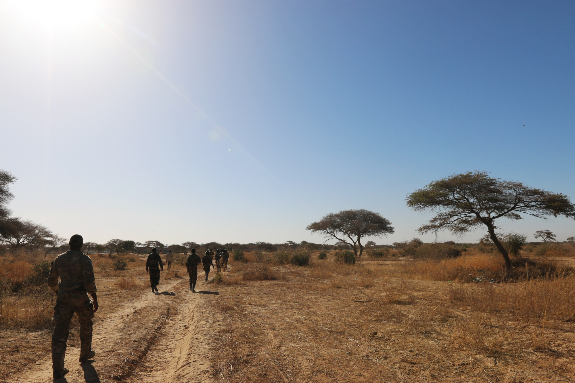 A green beret with 3rd Special Forces Group (Airborne) practices patrolling techniques with Nigerien soldiers during Exercise Flintlock 2017 in Diffa, Niger, Feb. 28, 2017. 3rd Special Forces Group (Airborne) is regionally aligned to North and West Africa. (U.S. Army photo by Staff Sgt. Kulani Lakanaria) Unit: U.S. Africa Command DVIDS Tags: Canada; United States; Australia; Belgium; 3rd Special Forces Group; SOCAFRICA; Niger; SOCAF; Special Operations Command Africa; Diffa; Flintlock17; Flintlock 2017; SOCFWD-NWA